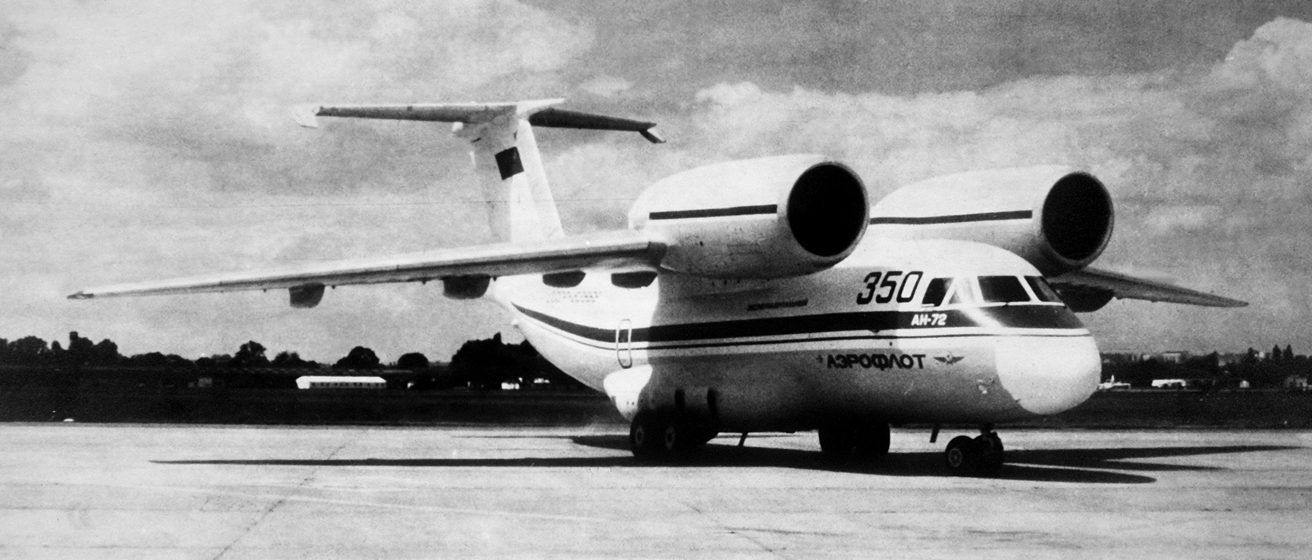 An-72 Coaler transport aircraft. (Courtesy of Soviet Military Power, 1984, Photo No. 126, Page 110)